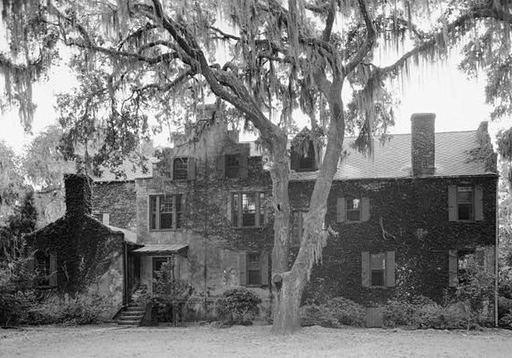 Medway Plantation, U.S. Route 52, Pine Grove vicinity (Berkeley County, South Carolina) - cropped.